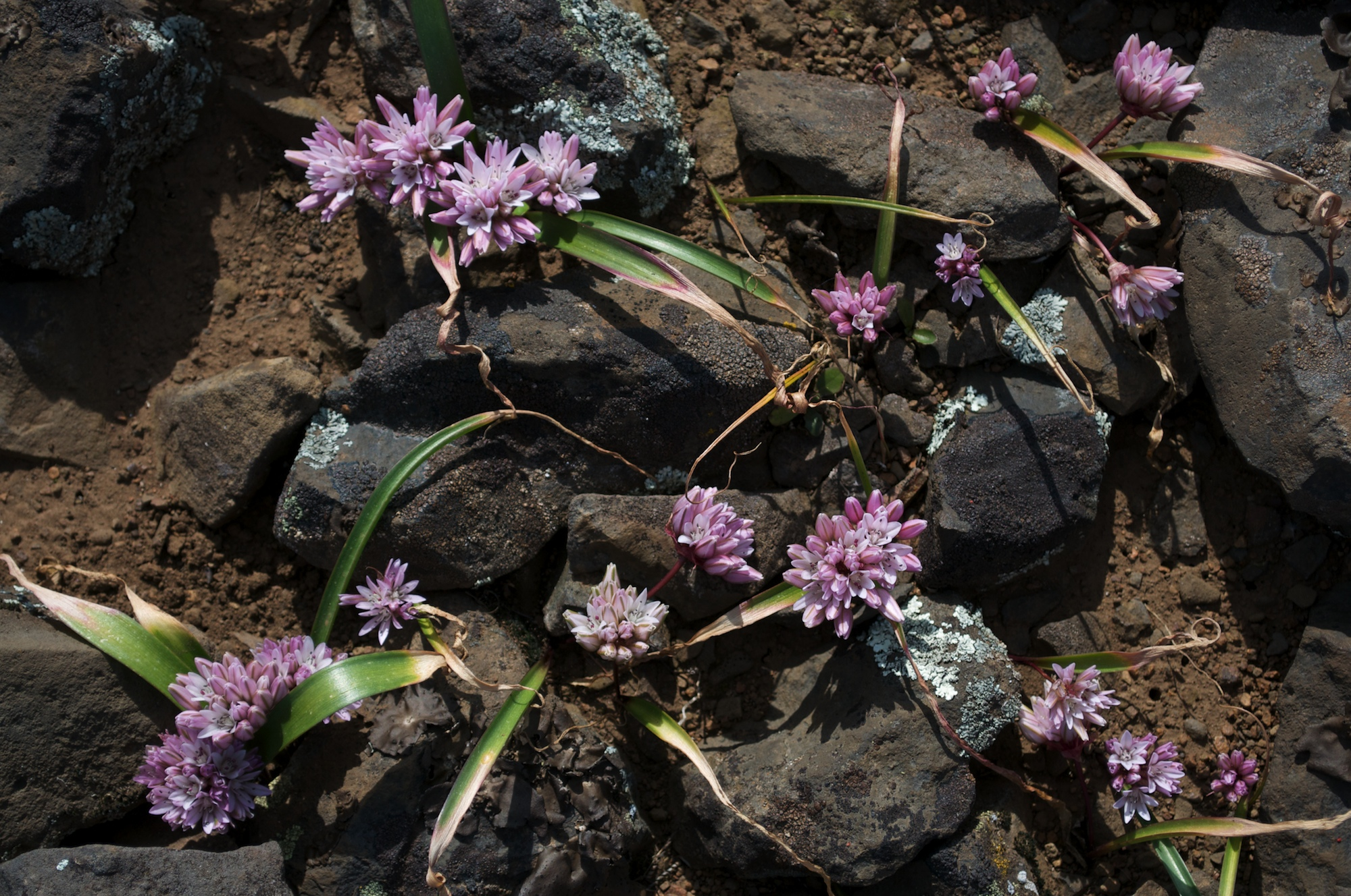 Allium cratericola — common name: Cascade Onion. Photographed at the North Table Mountain Ecological Reserve, in Northern Basalt Flow Vernal Pools habitat, in Butte County, California. This native onion species is endemic to California.